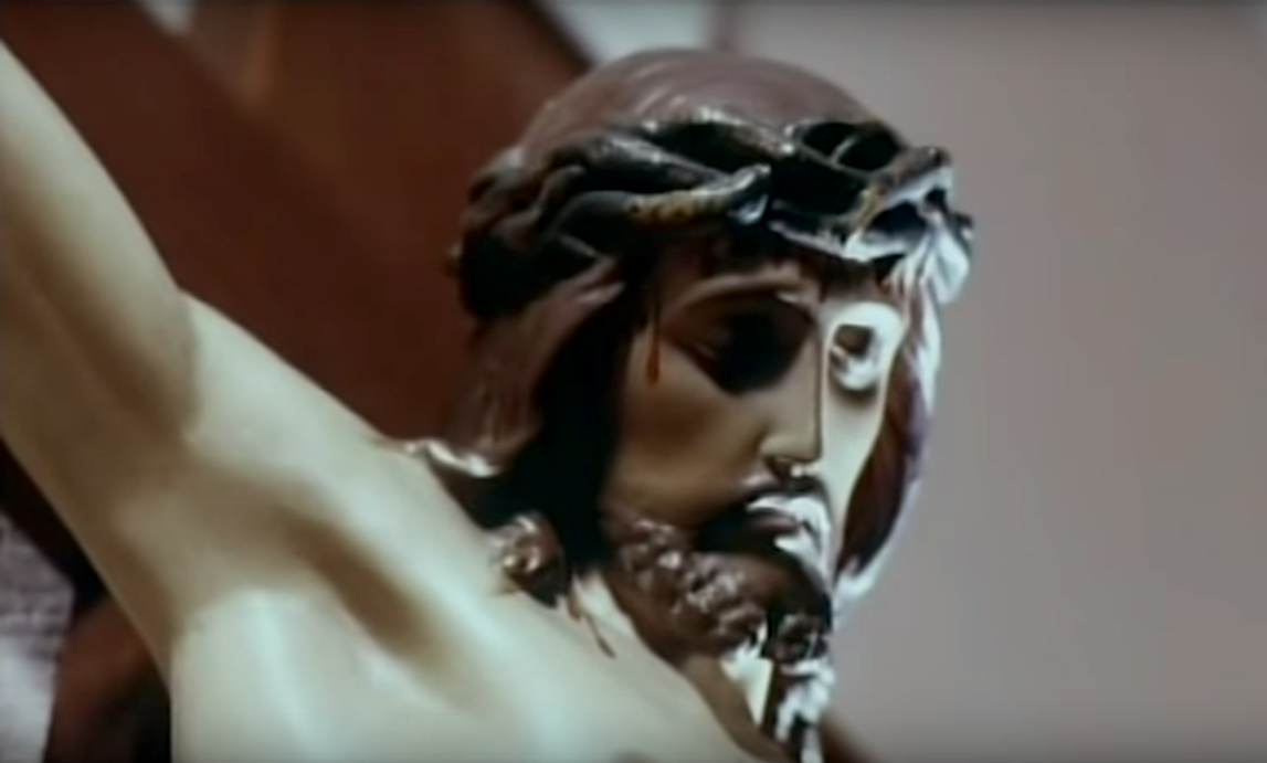 Screen capture from 1976 film Alice, Sweet Alice, from trailer under title Holy Terror.